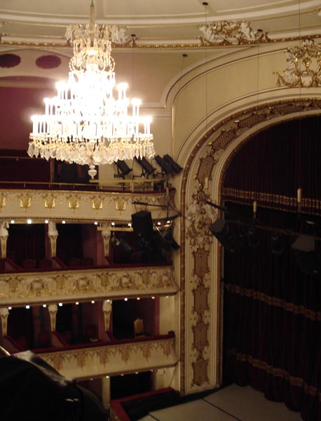 National Theatre of Miskolc inside